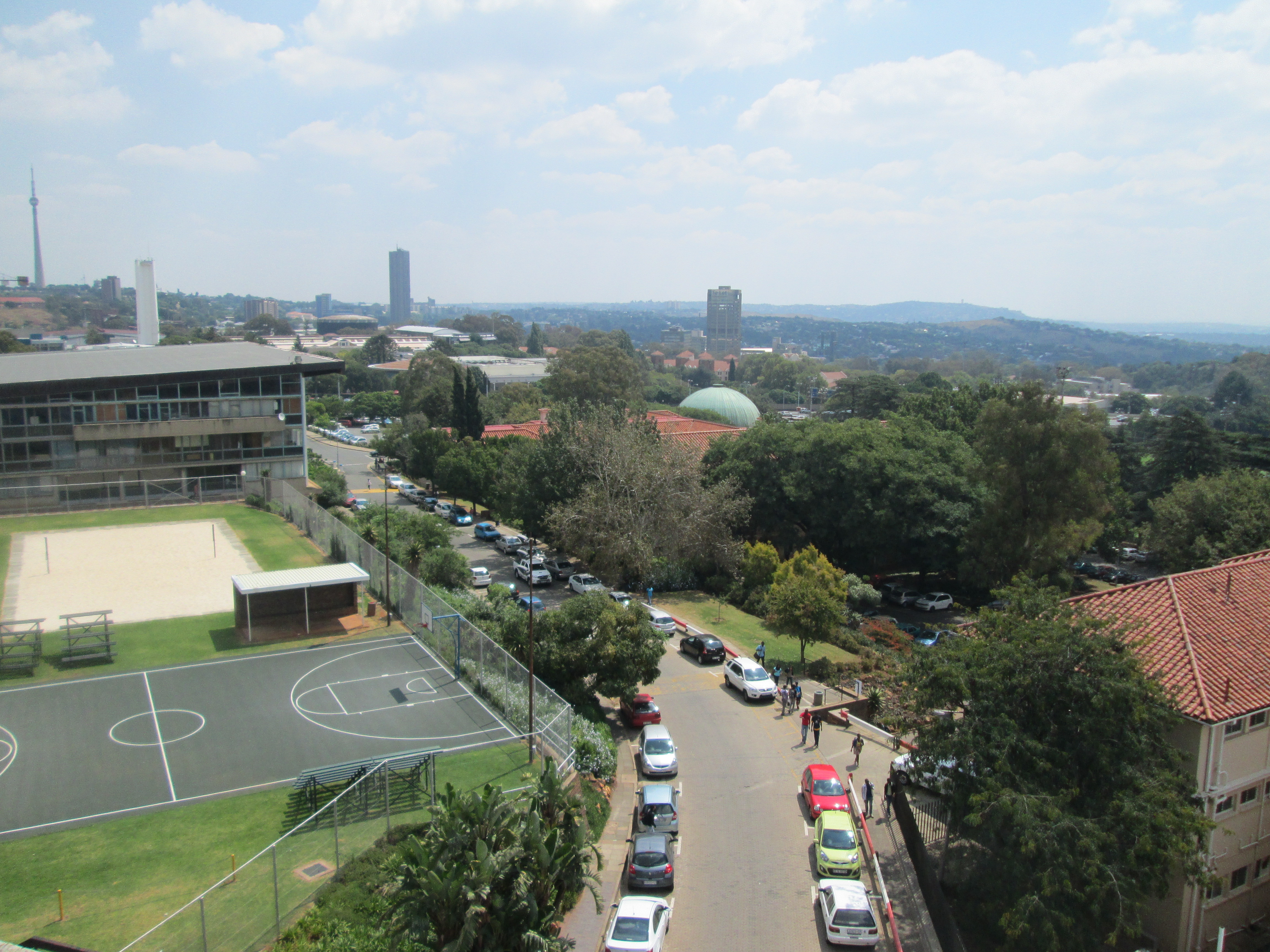 The view from the rooftop garden of the Wits SRC offices in the Student Union Building (colloquially "the Matrix" after the mall housed on its ground floor), looking west-north-west over the East Campus, with the West Campus and the north-western Johannesburg skyline (including the University of Johannesburg) visible in the background.